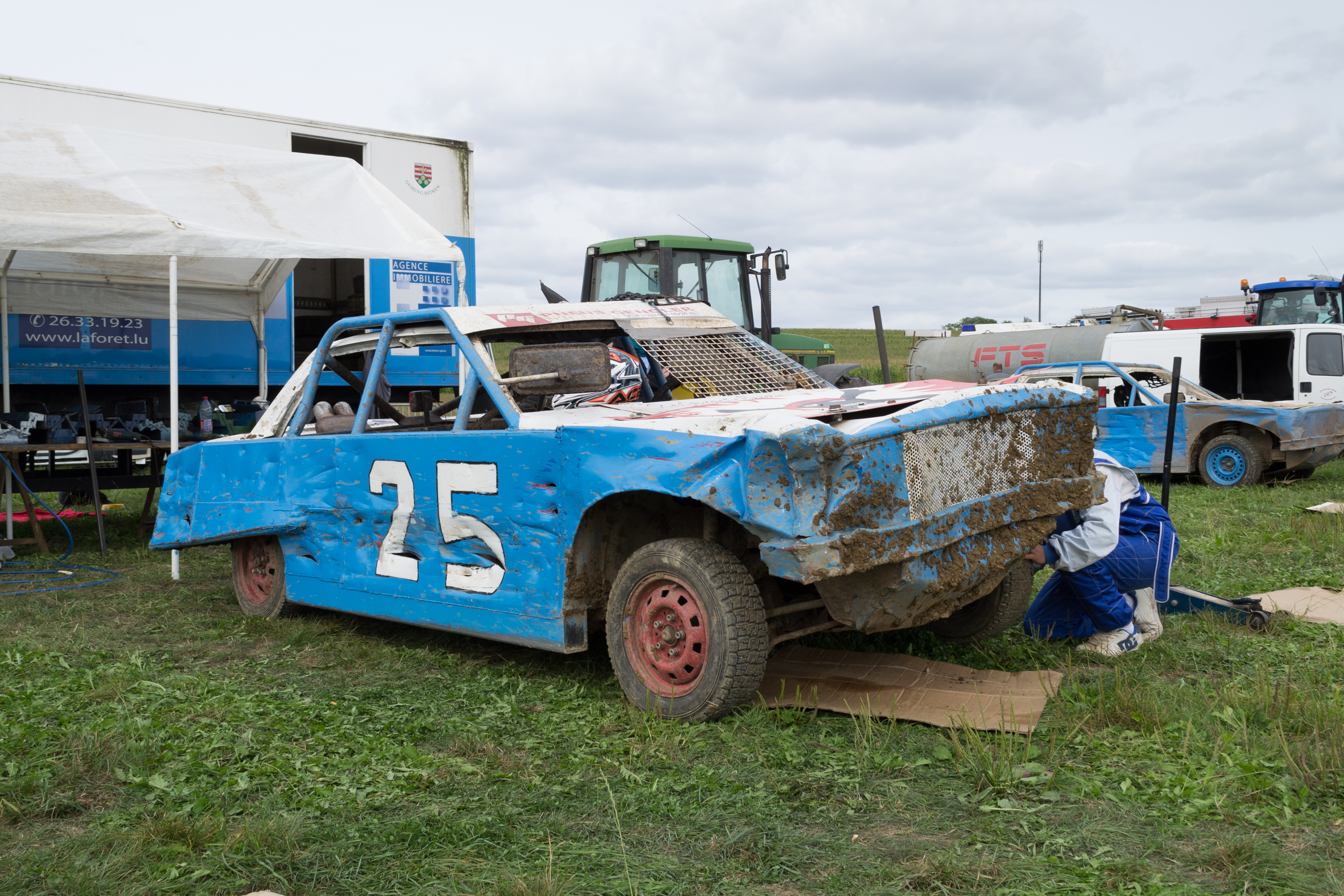 Stock car at a race in Alzingen, Luxembourg